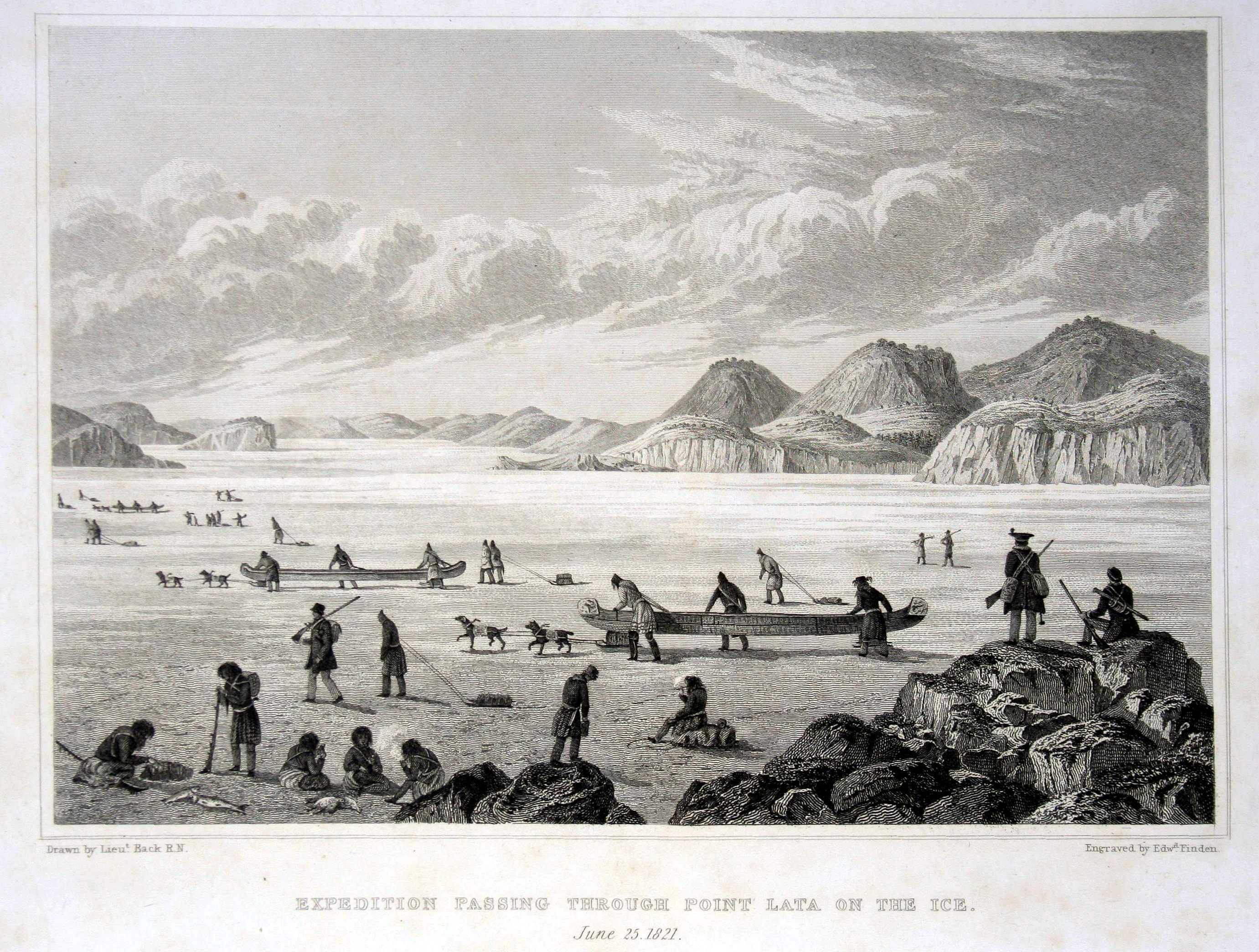 John Franklin's first expedition (from Gray (France) Librairy book : Sir John Franklin - Narrative of a Journey to the Shores of the Polar Sea in the Years 1819-22. London: John Murray. )